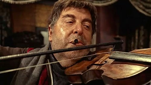 Ángel Álvarez as Nathaniel the bartender in the Italian Spaghetti western film Django, released in 1966